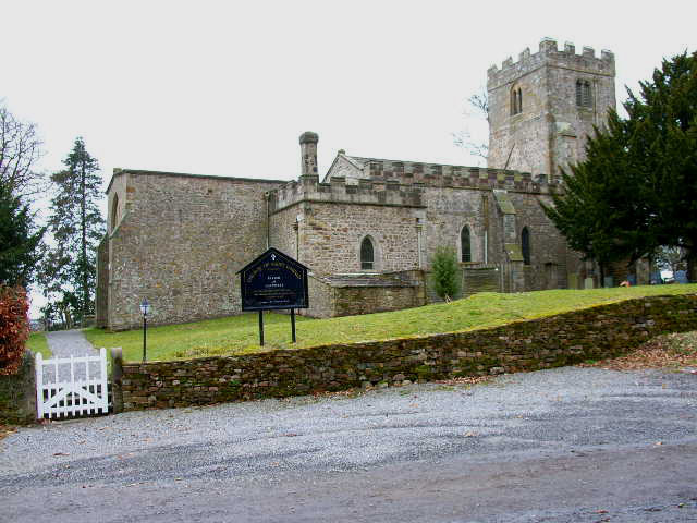 St Oswalds Church, Hauxwell, dates from around 1200